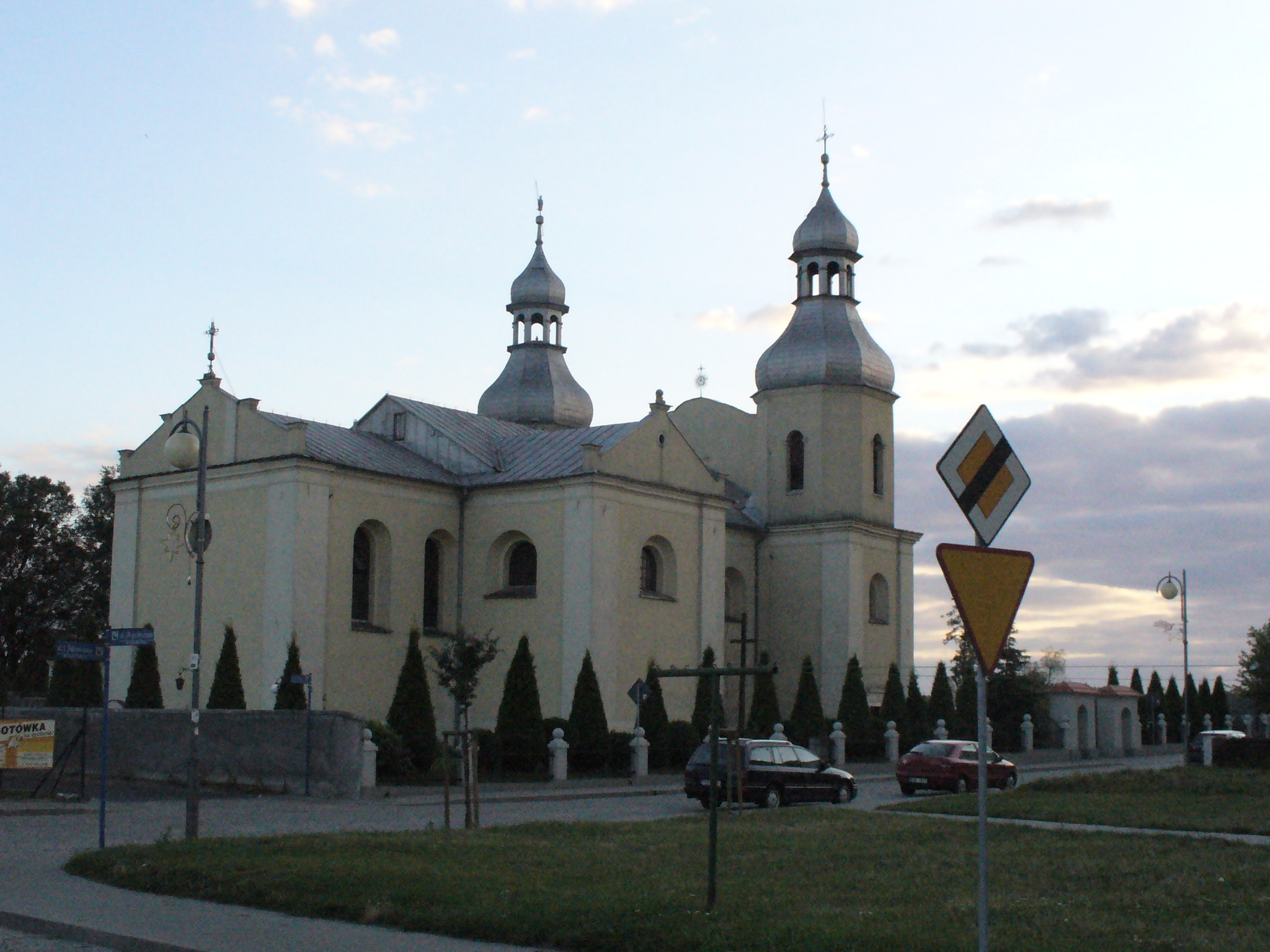 Holy Spirit church in Wieruszów